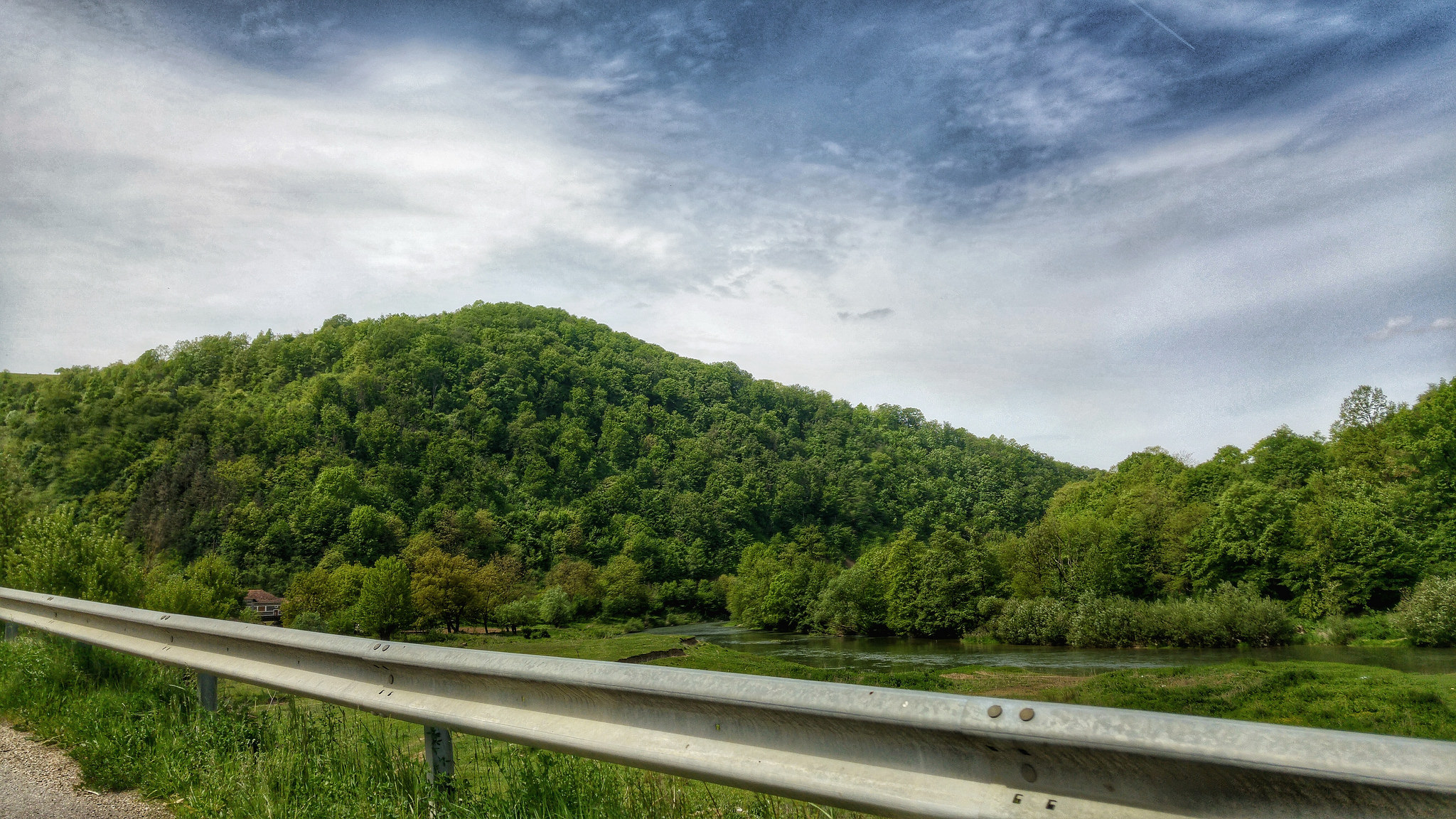 Crişul Negru canyon in Borz, commune of Şoimi, county of Bihor, Romania.